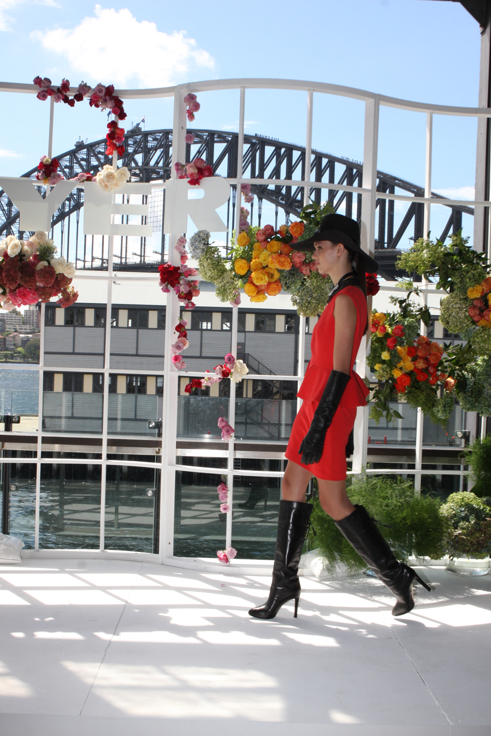 MYER AW 13 Racing Collection Preview featuring Jennifer Hawkins and Laura Dundovic... THE 2013 AUTUMN WINTER RACING COLLECTIONS Today Myer Ambassadors Jennifer Hawkins and Laura Dundovic were joined by fourteen models in a fashion moment showcasing the latest Myer Autumn Winter racewear collections and millinery at The Bar at The End of the Wharf, hosted by TV and media personality Melissa Hoyer. Myer Designers Arthur Galan, Nicola Finetti, The Ladies from Manning Cartell, Jayson Brunsdon, Fleur Wood, and Matthew Eager were there alongside Myer Milliners Kerrie Stanley and Ann Shoebridge. Sydney personalities Lynette Bolton, Tara O’Keefe, Amber Sherlock and James Tobin. As the Autumn Winter festival of racing approaches across Australia, Myer is the ultimate destination for all racing fashion and designer millinery. Guests were treated to divine Mumm Champagne and mouthwatering canapés and sweet treats. It all happened at at The Bar at the End of the Wharf (in the Sydney Theatre Company). Websites Myer Jennifer Hawkins official website Sydney Theatre Company Eva Rinaldi Photography